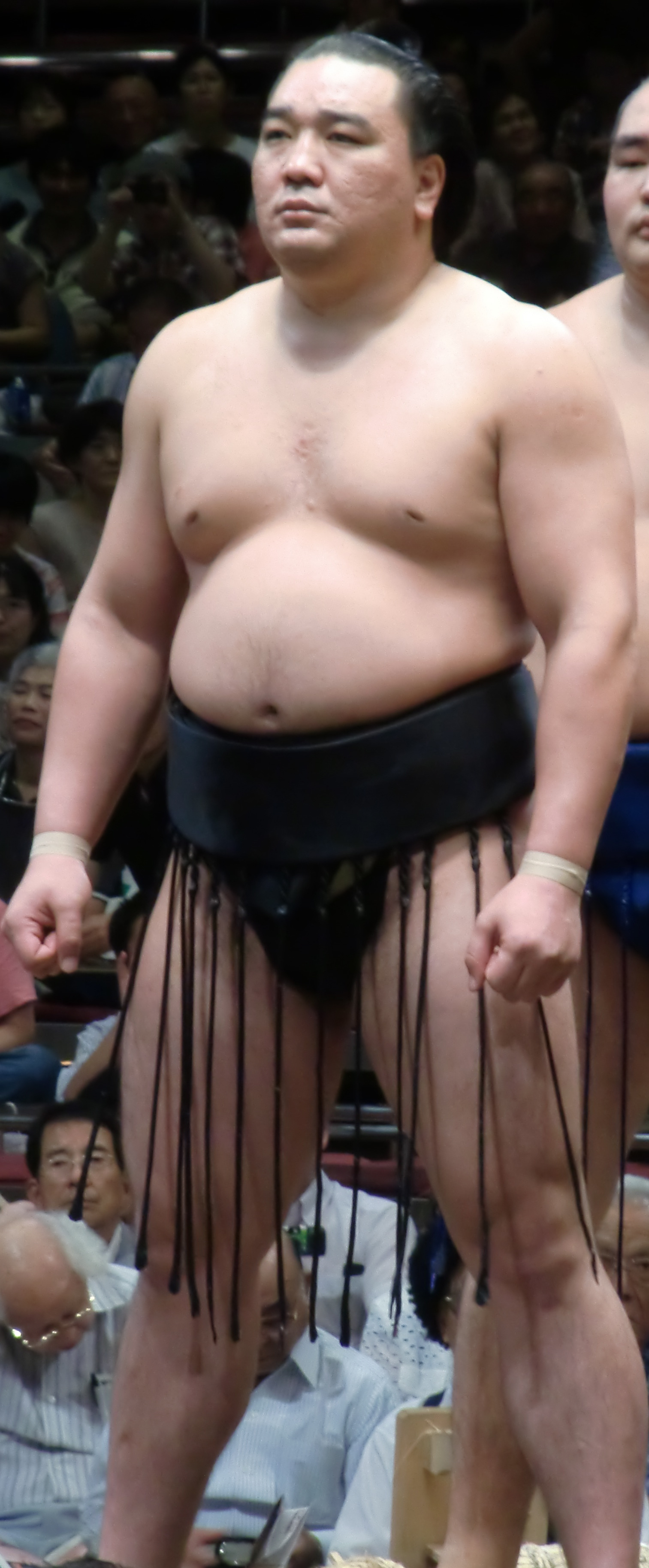 taken at 2011 Sep tournament